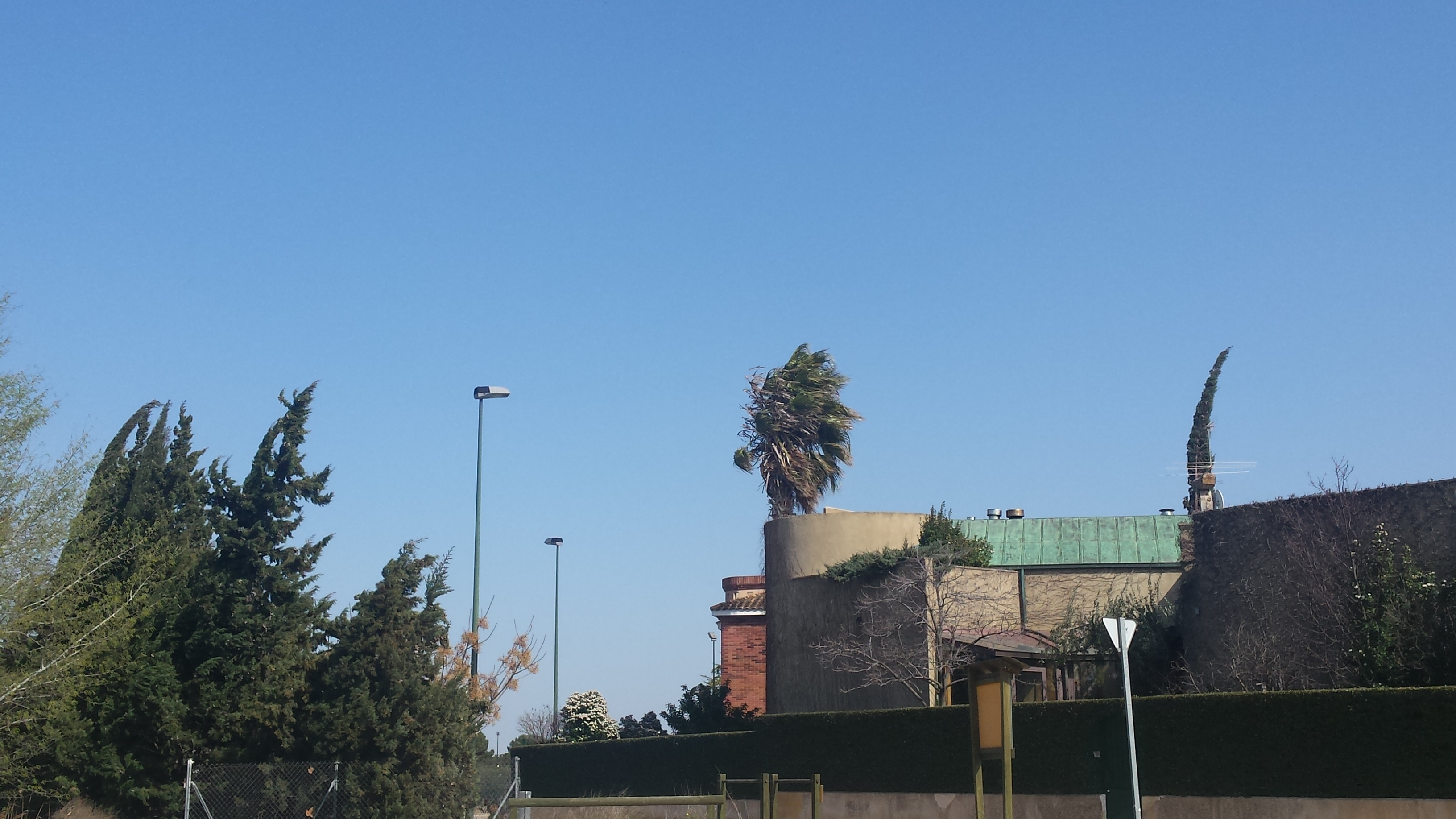 Effects of the Cierzo wind in a neighbourhood in Zaragoza (Aragón, Ebro Valley, Spain)